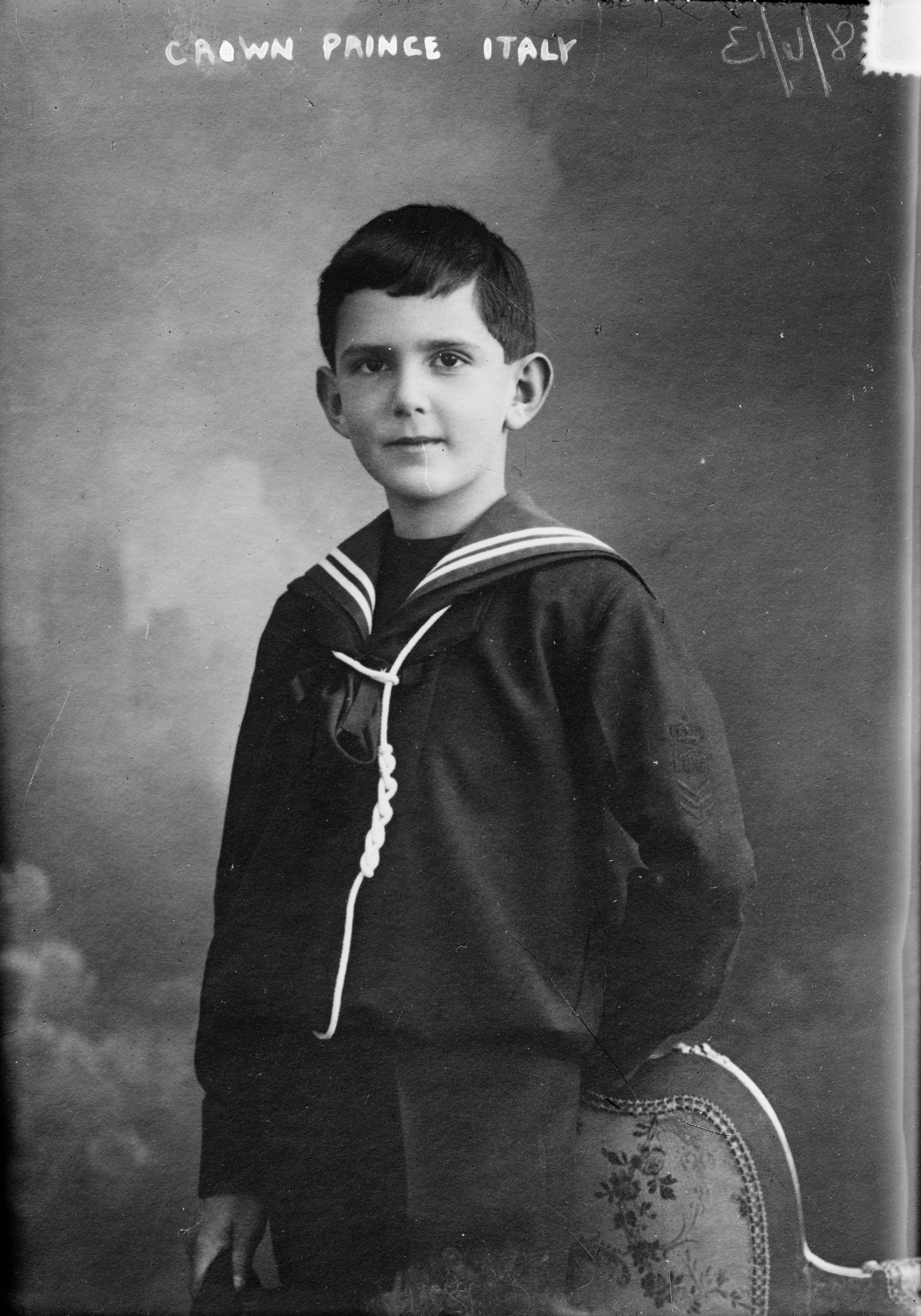 King Umberto II of Italy (1904-1983) as a young boy.